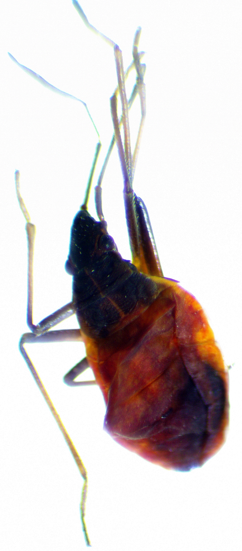 Aa bug